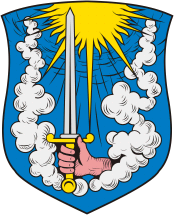 Gvardeisk (Kaliningrad oblast), coat of arms